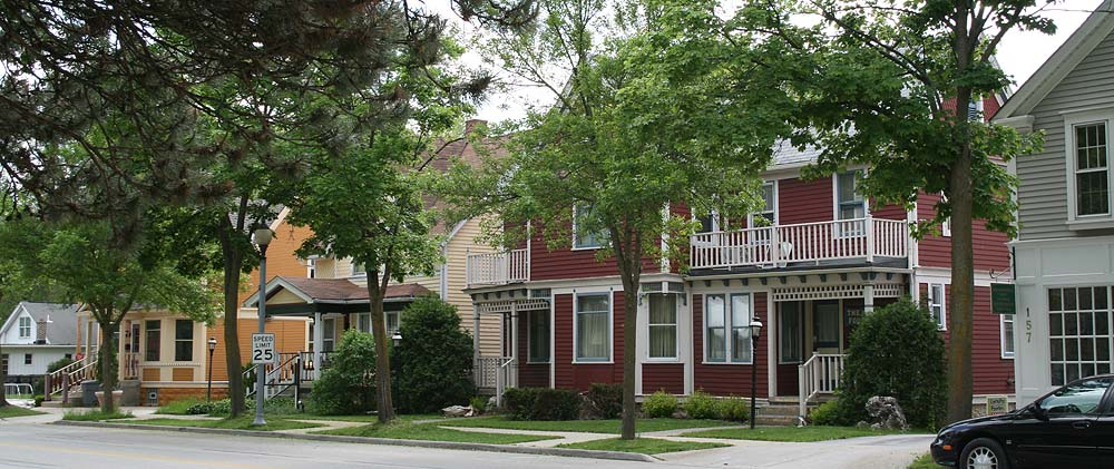 The Green Bay Road Historic District, a National Registered Historic Place, in Thiensville, Wisconsin.